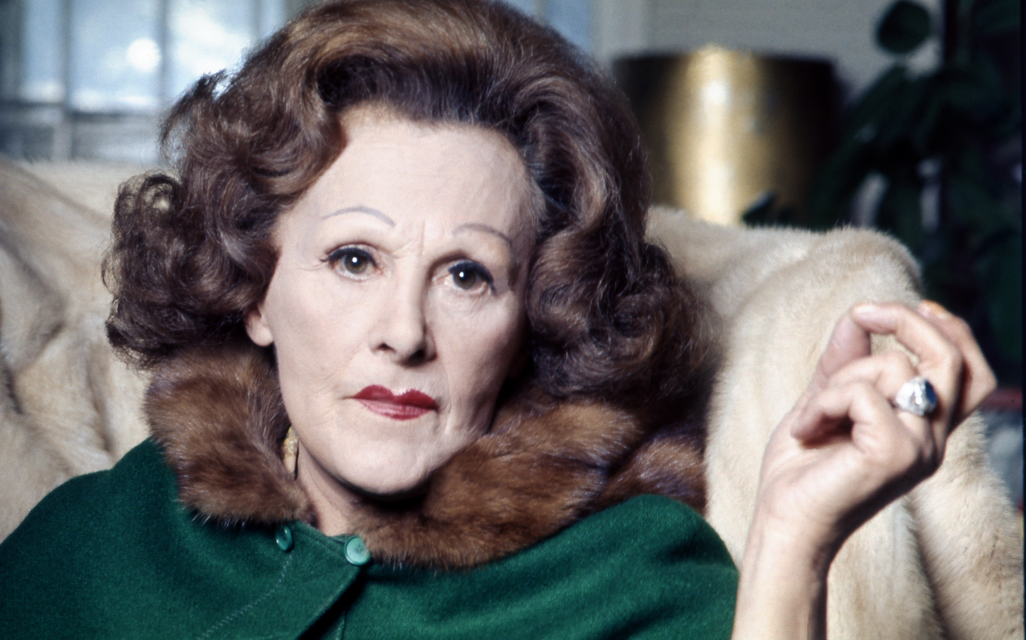 portrait of Fanny Cradock